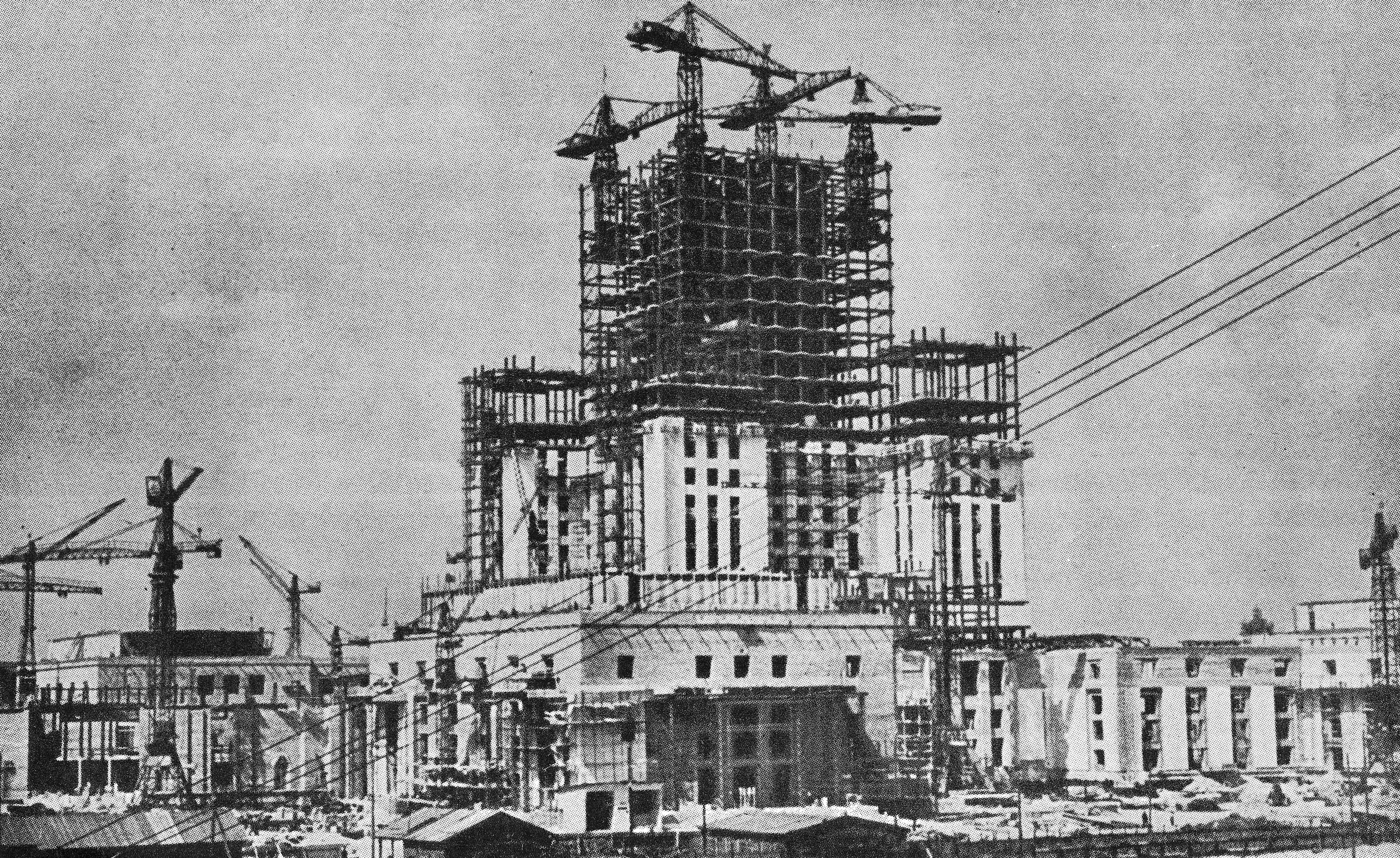 Construction of the Palace of Culture and Science in Warsaw